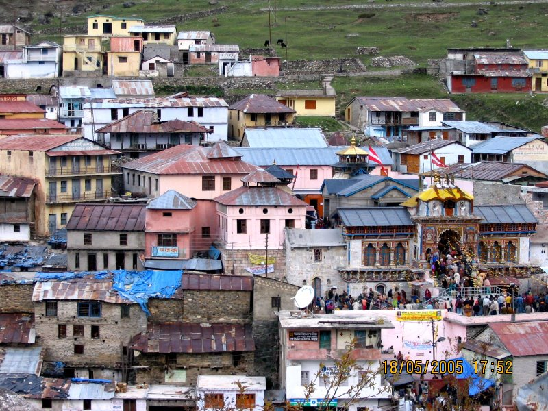 Badrinath town temple surroundings, Uttarakhand (May, 2005)